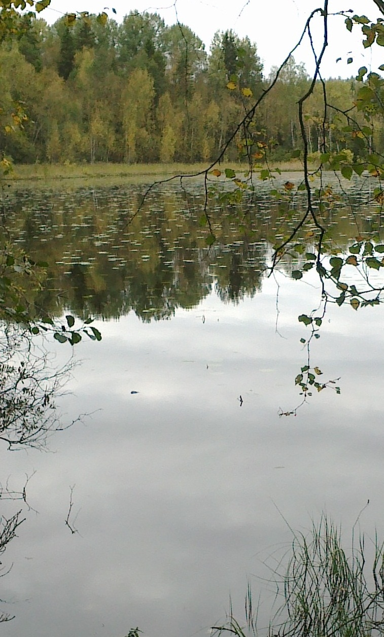 Likolammi